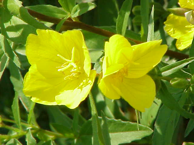 Species: Oenothera sp. (? - not O. speciosa, see talk) Family: Oenotheraceae Image No. 1